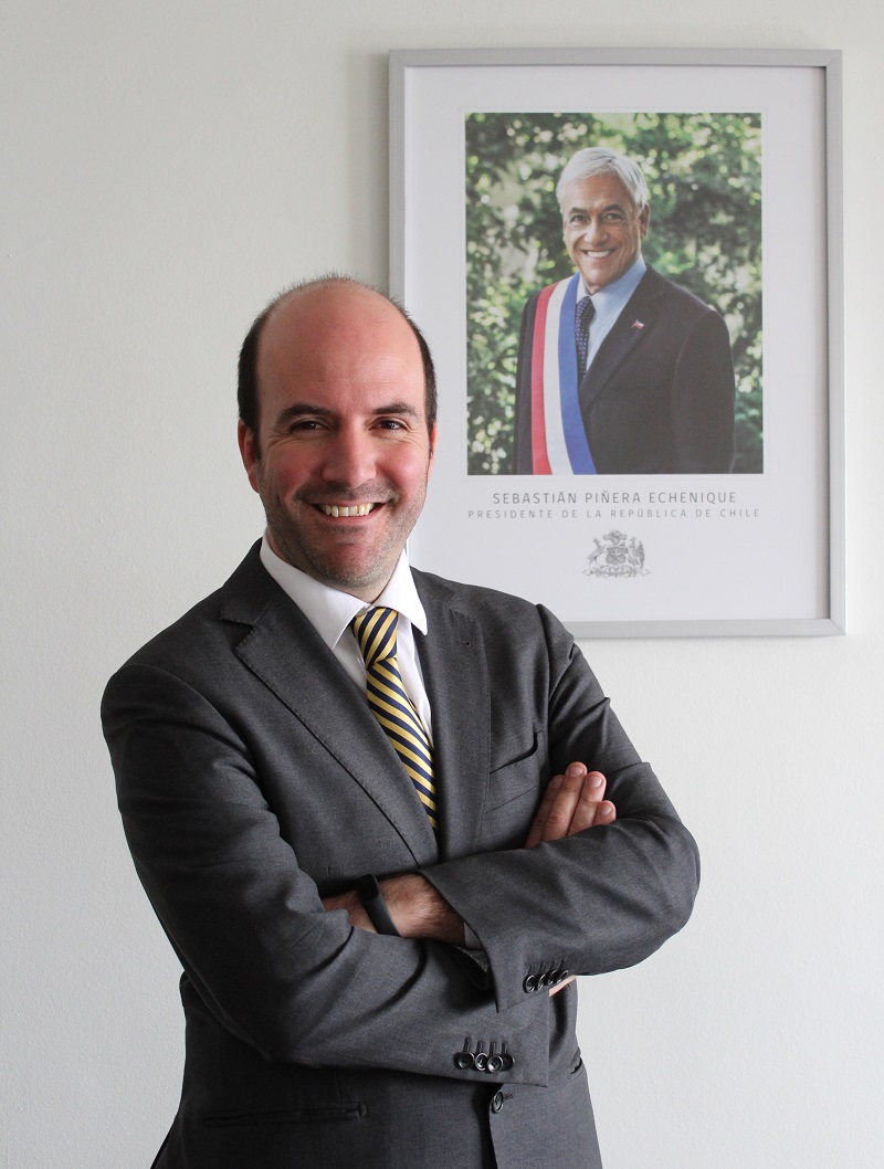 Official photo of Cristóbal Leturia as Undersecretary of Public Works in 2018